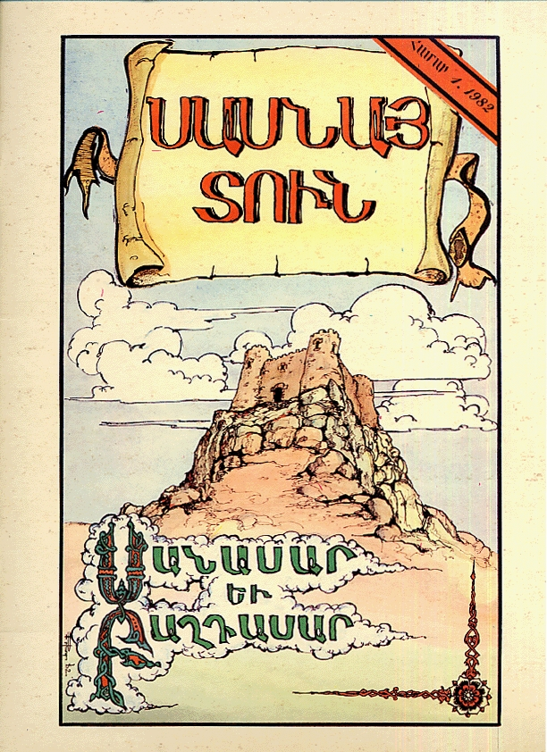 Book cover of Sasna Tun (House of Sasun) comic book, telling the story of Sanasar and Baghdasar, part of the epic of Daredevils of Sassoun. Printed by Tehran Armenian Schools' Central Committee, Tehran, 1982.